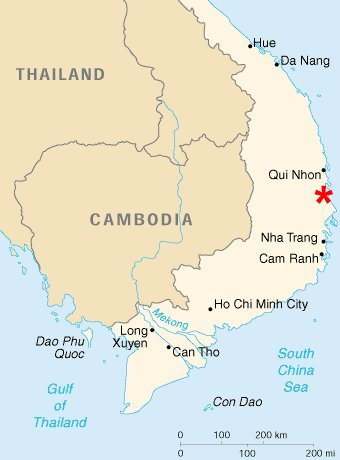 Location of Tuy Hoa Air Base. Created from map of southern (south) vietnam generated from wikipedia commons map of southeast asia